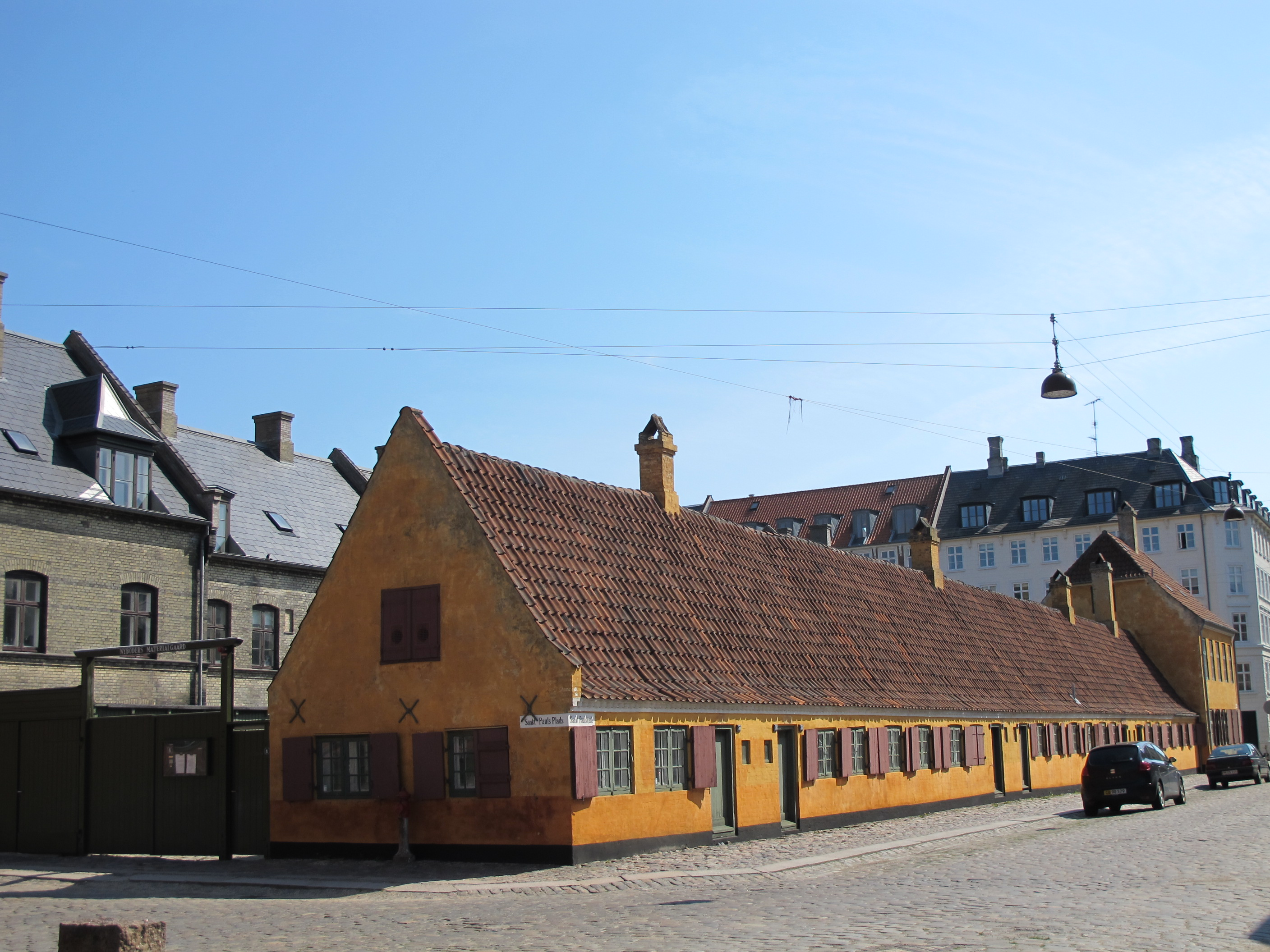 Corner of Sankt Pauls Plads, Nyboder district